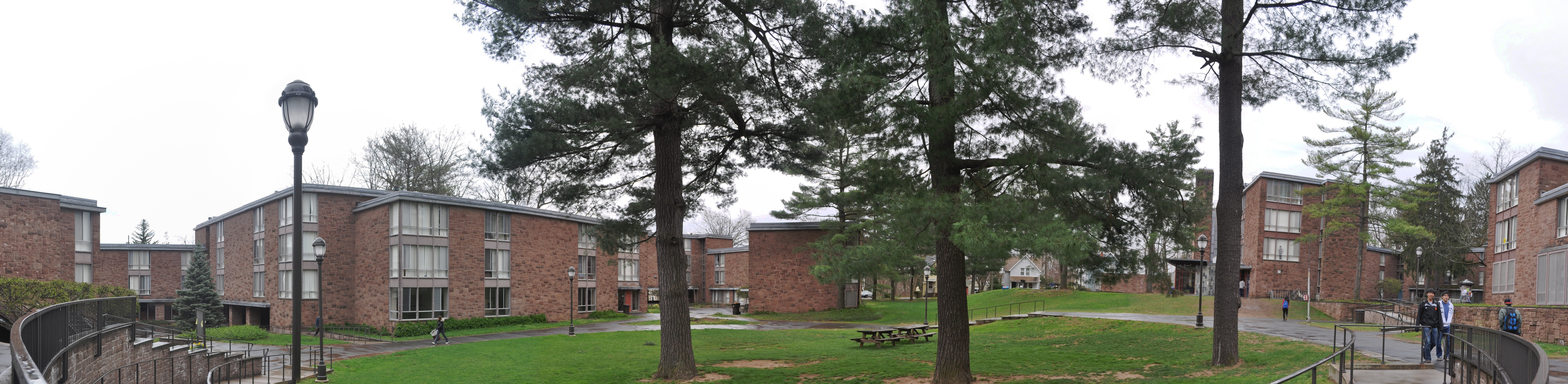 Roughly a 150° panoramic view of the Butterfield Colleges, Wesleyan University, Middletown, Connecticut, USA. The Butterfield Colleges were originally conceived as "residential colleges" along the British model, a mix of academic departments and dormitories. They are now almost entirely dormitory facilities. This image was created with Hugin